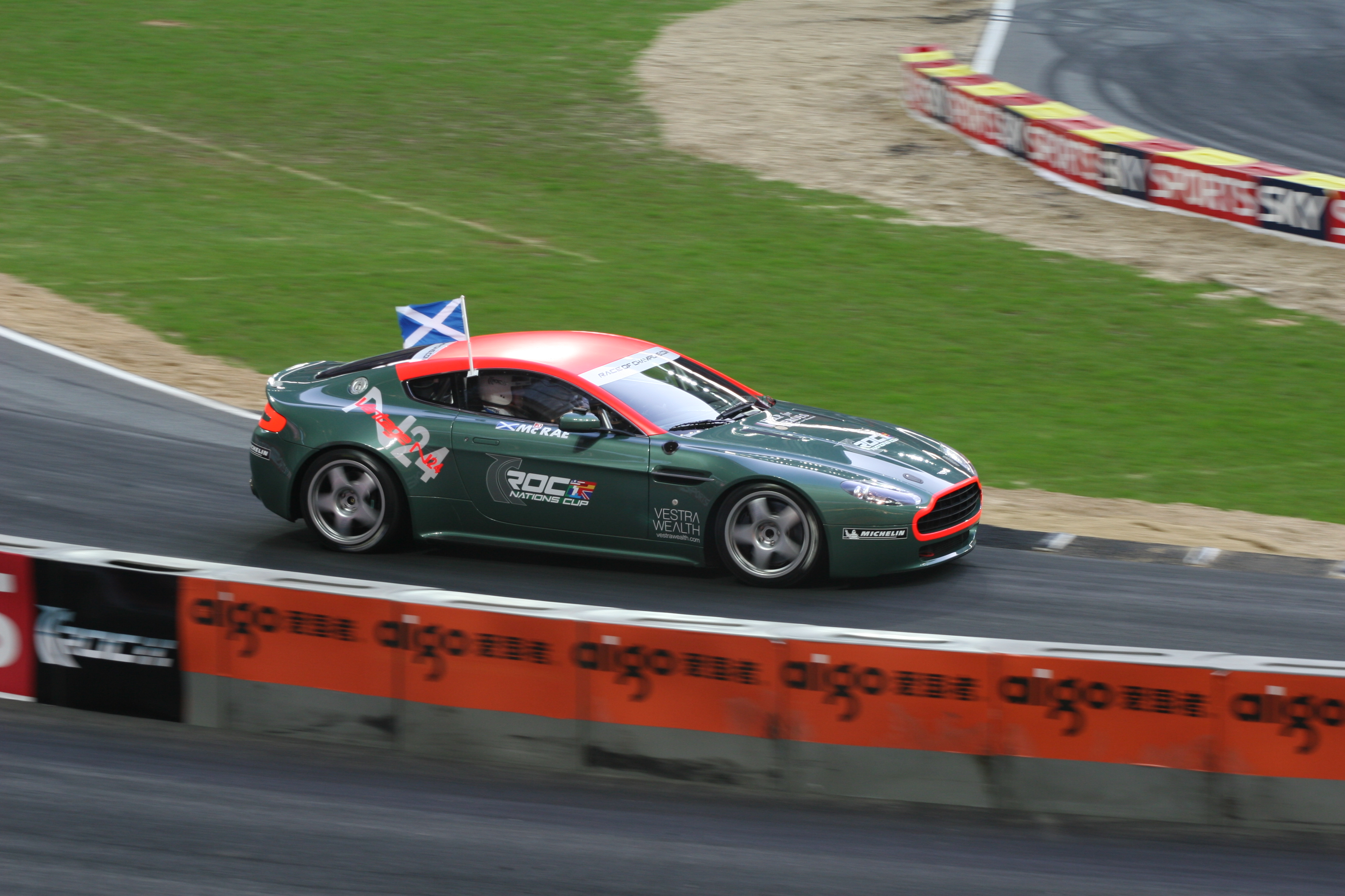 Alister McRae driving an Aston Martin V8 Vantage N24 at the 2007 Race of Champions at Wembley Stadium.